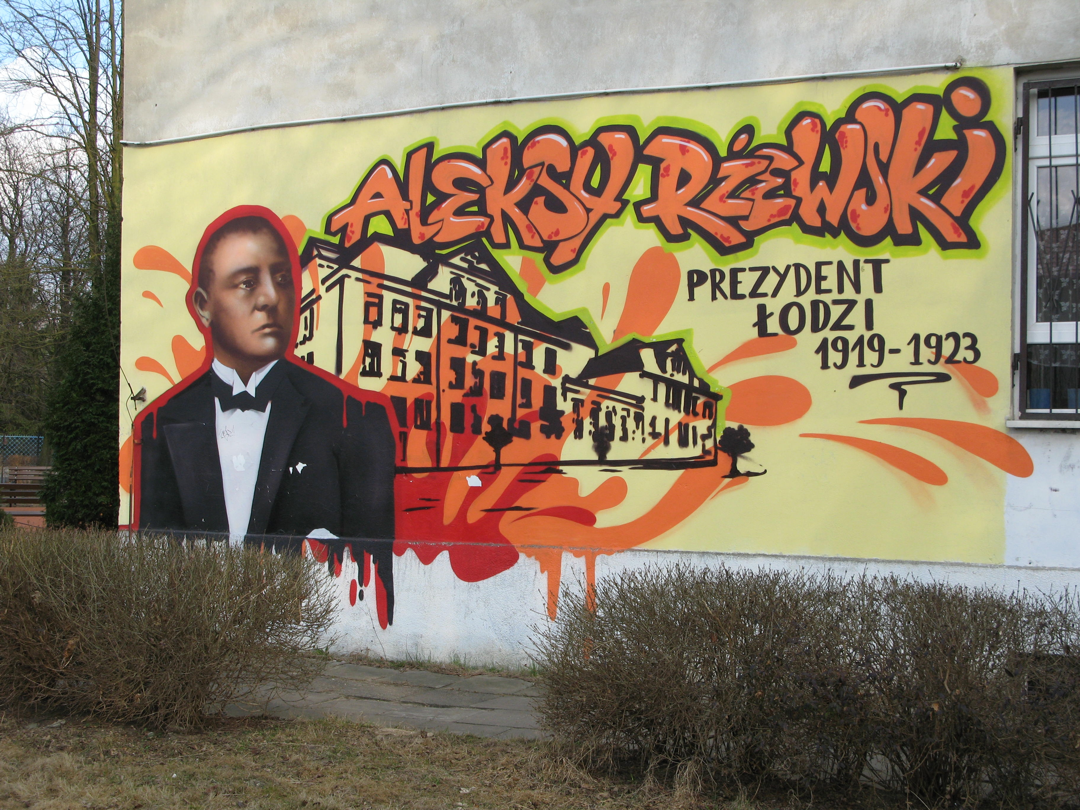 Mural Aleksy Rżewski, Łódź 2-4 Ratajska Street